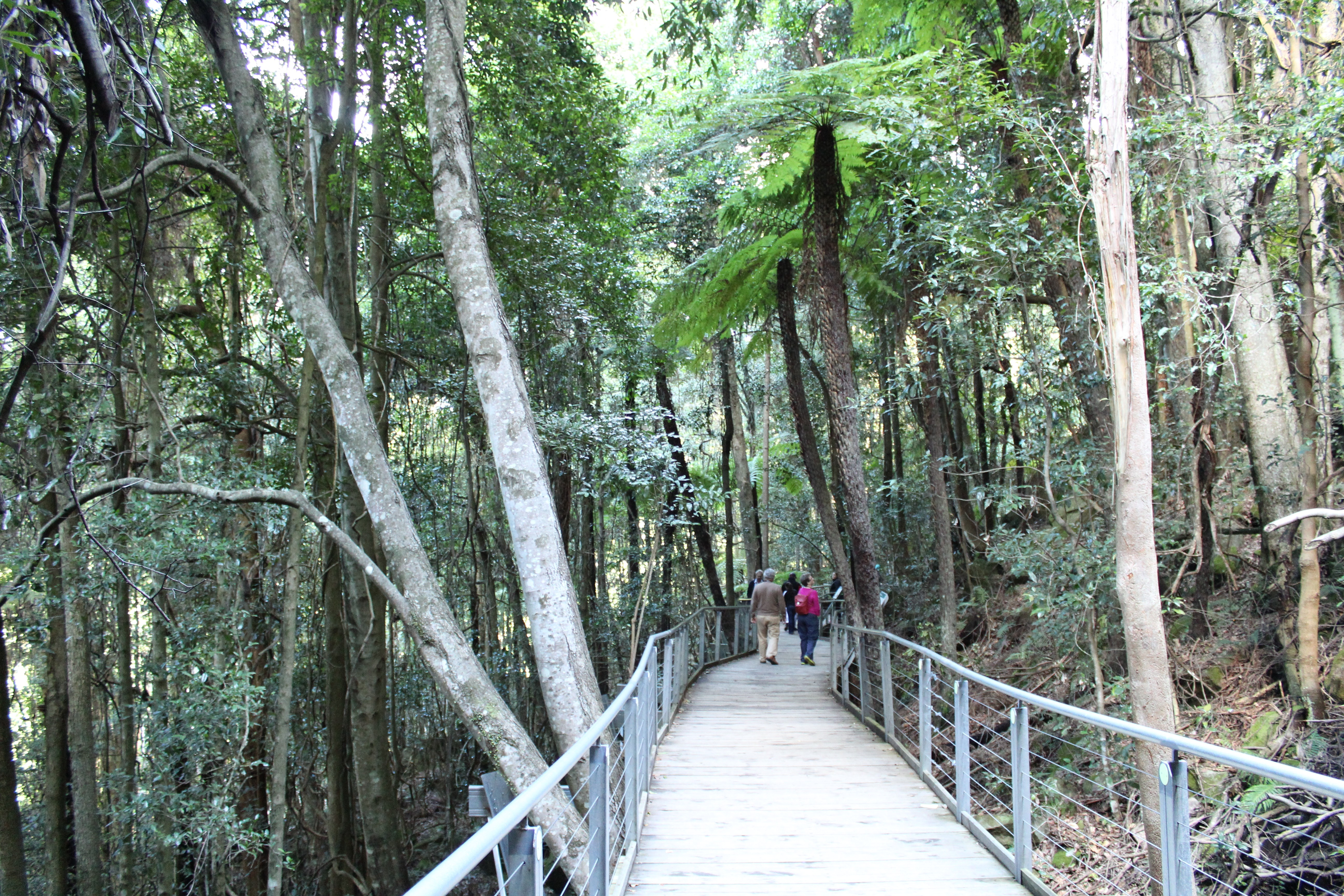 Scenic World